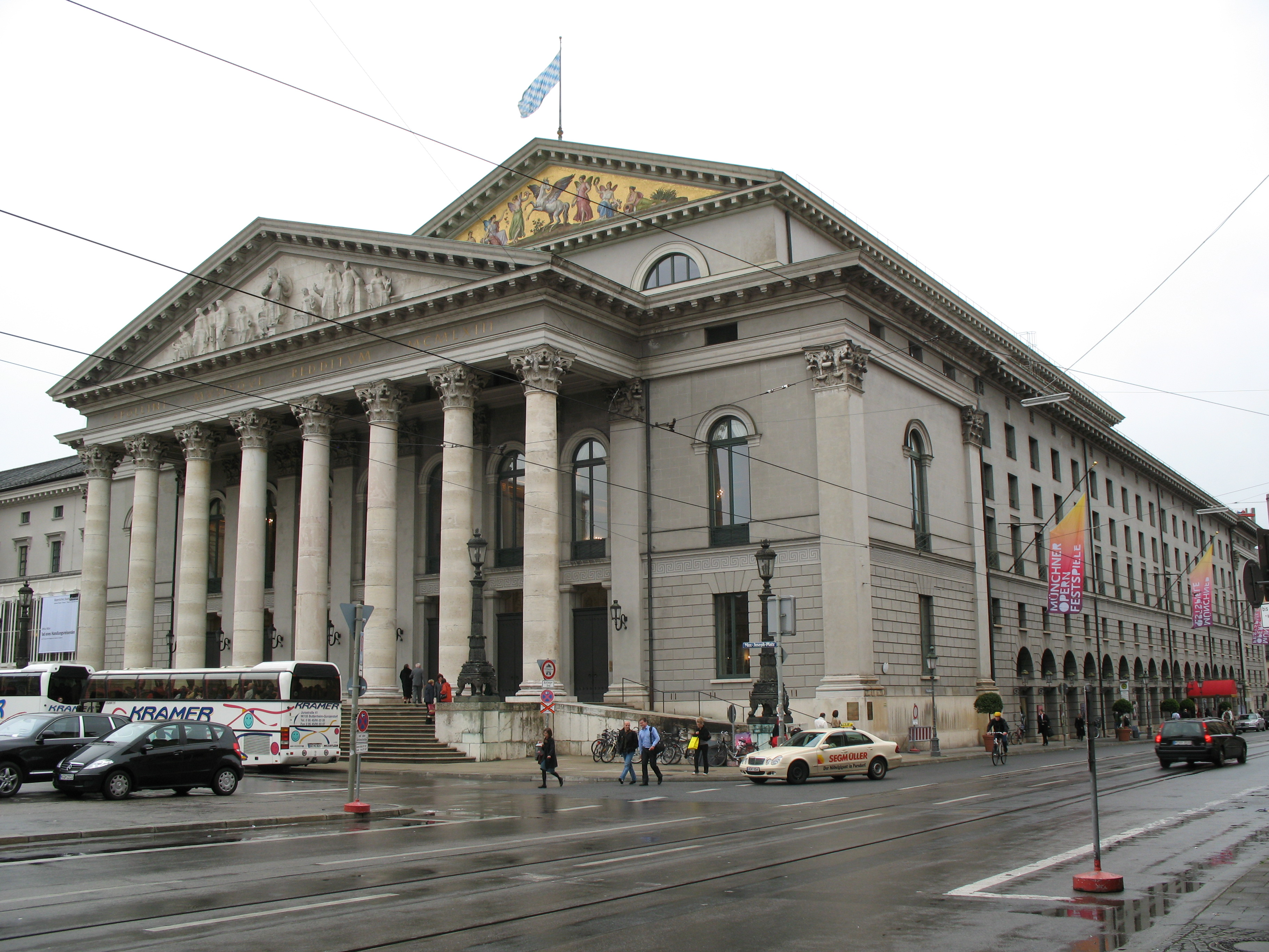 National Theatre, Munich, Germany